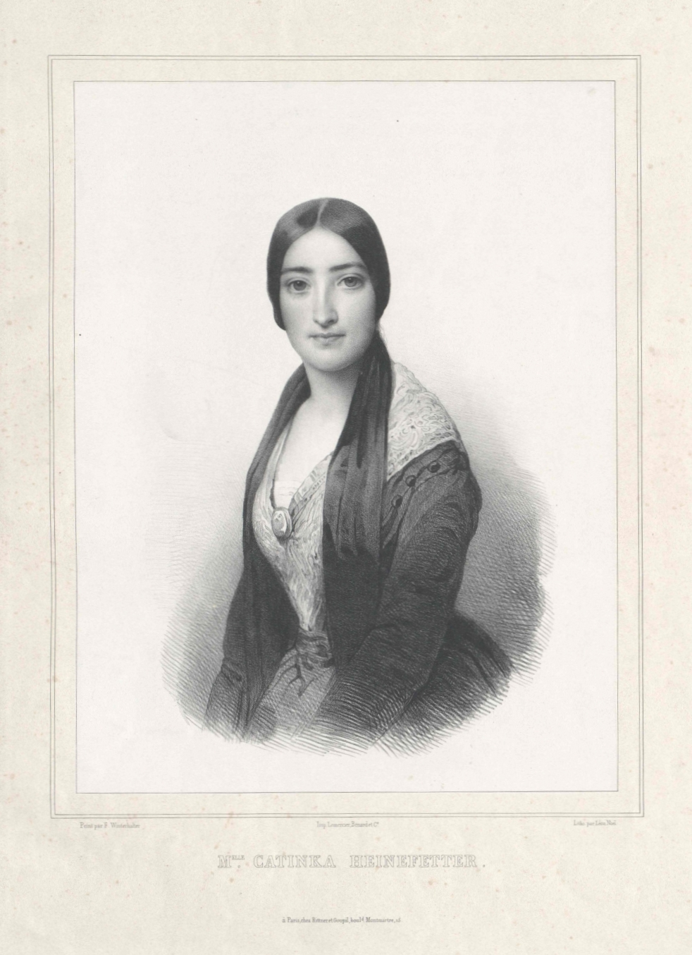 Catinka Heinefetter (1819–1858), German opera vocalist (soprano). Lithograph by Alphonse-Léon Noël (1807–1884) after the painting by Franz Xaver Winterhalter (1805–1873) Printed by Lemercier, Bénard & Cie., published by Rittner et Goupil in Paris.